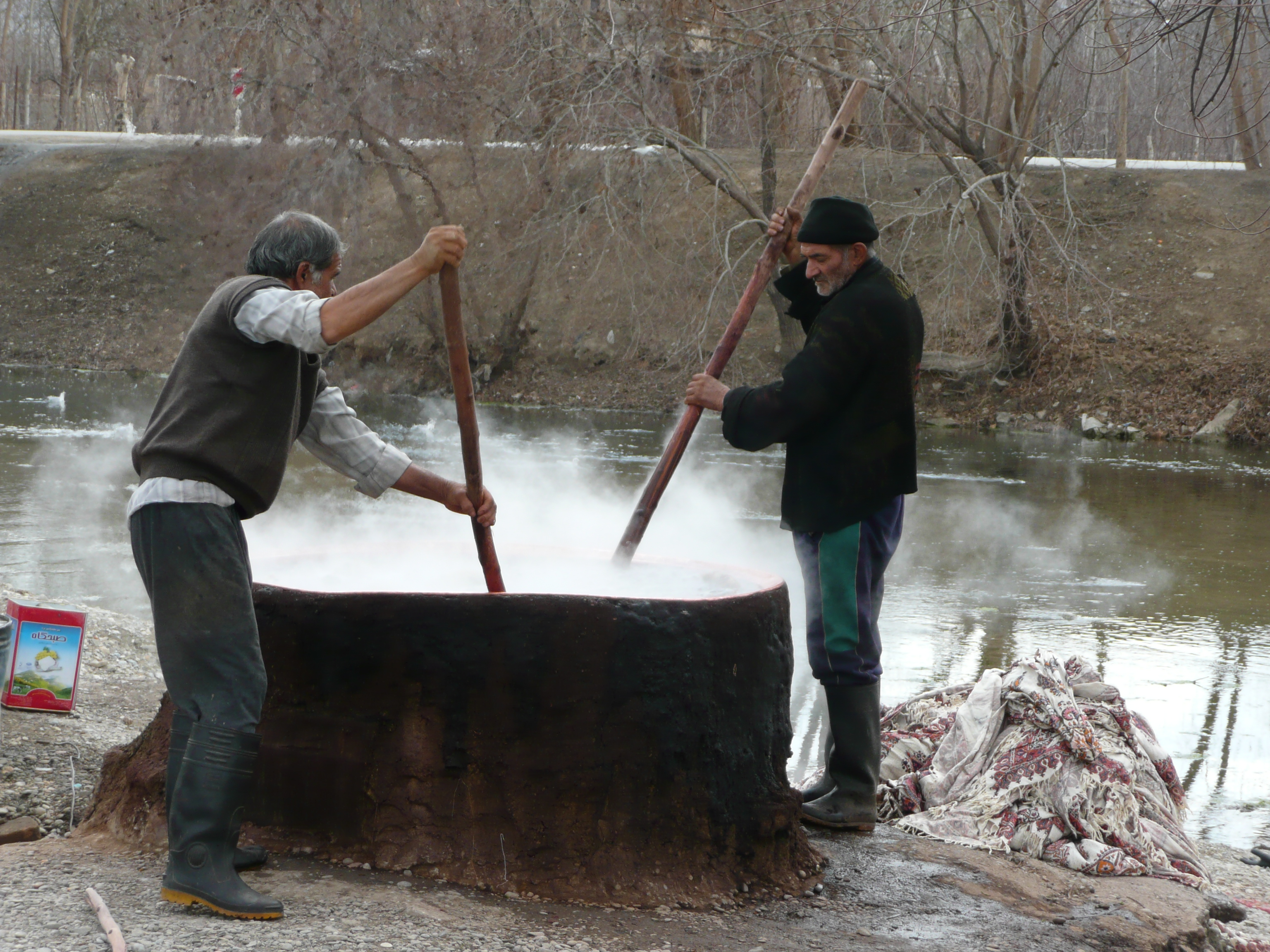 Workers fixing textile dye in boiling water. Near Zayenderud river, Isfahan, Iran.